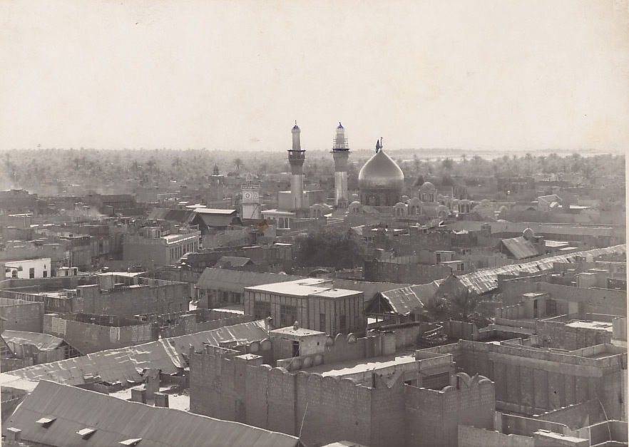 Imam Husayn Shrine in Karbala